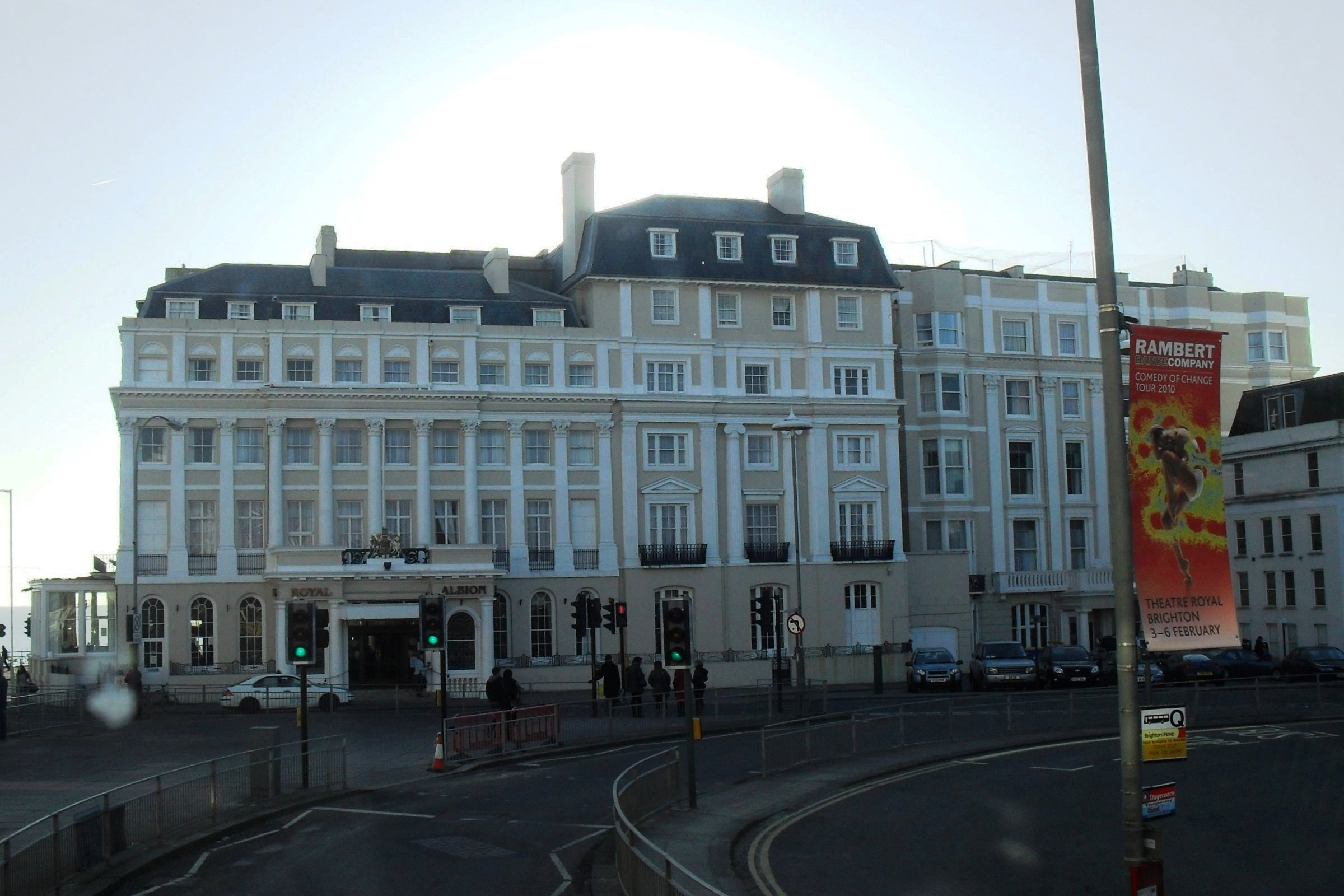 North face of The Royal Albion Hotel, junction of Grand Junction Road and Old Steine, Brighton, City of Brighton and Hove, England. From left to right: the original part of the hotel (built in 1826); the extension of circa 1847; and the former Lion Mansions Hotel (1856), absorbed by the Royal Albion in 1963. The 1826 and 1847 sections are listed at Grade II* by English Heritage (Heritage Gateway Code 294536); the 1856 section is listed separately at Grade II (IoE Code 476280).